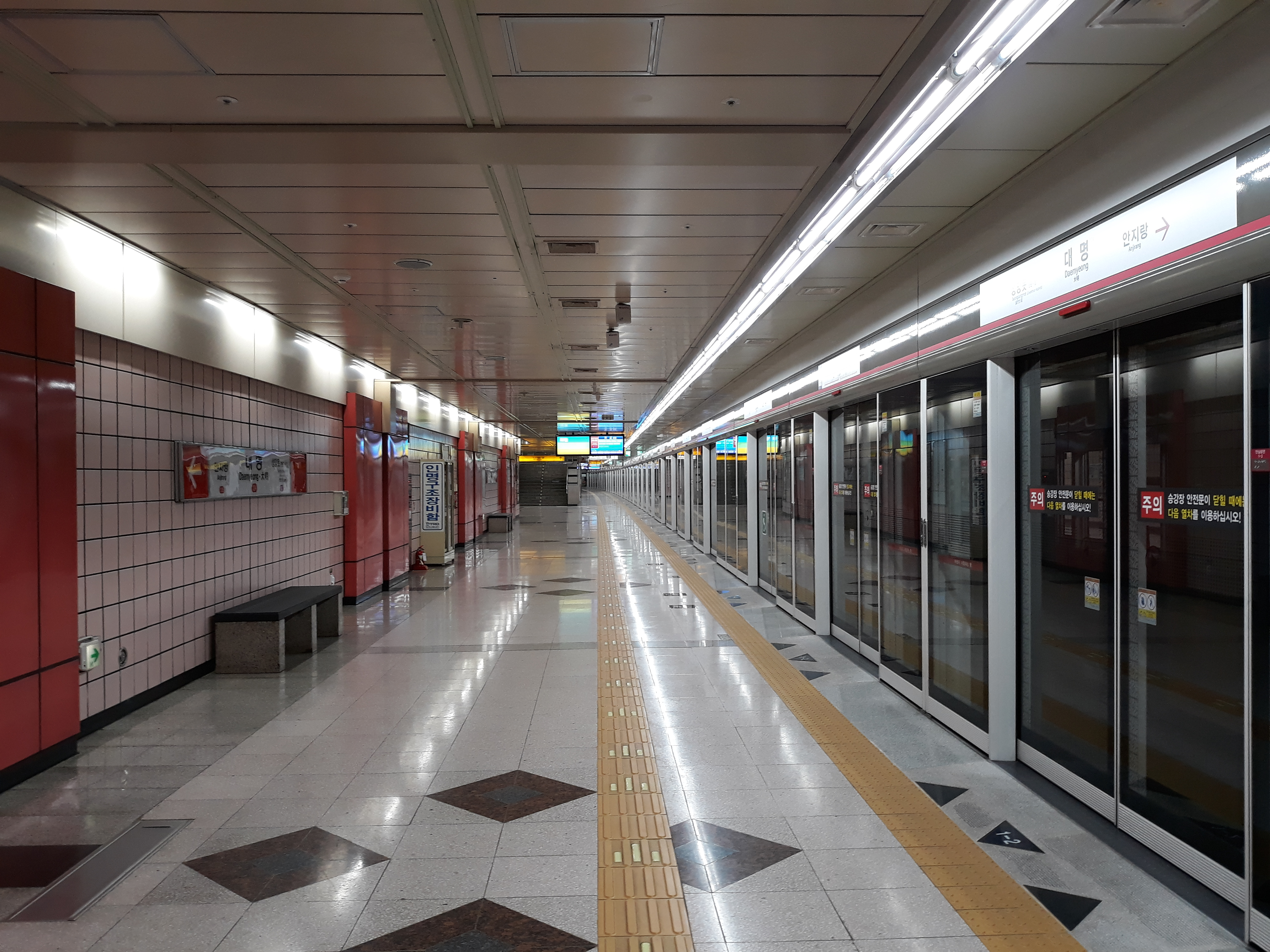 The Ansim-bound platform at Daemyeong station on Daegu metro line 1